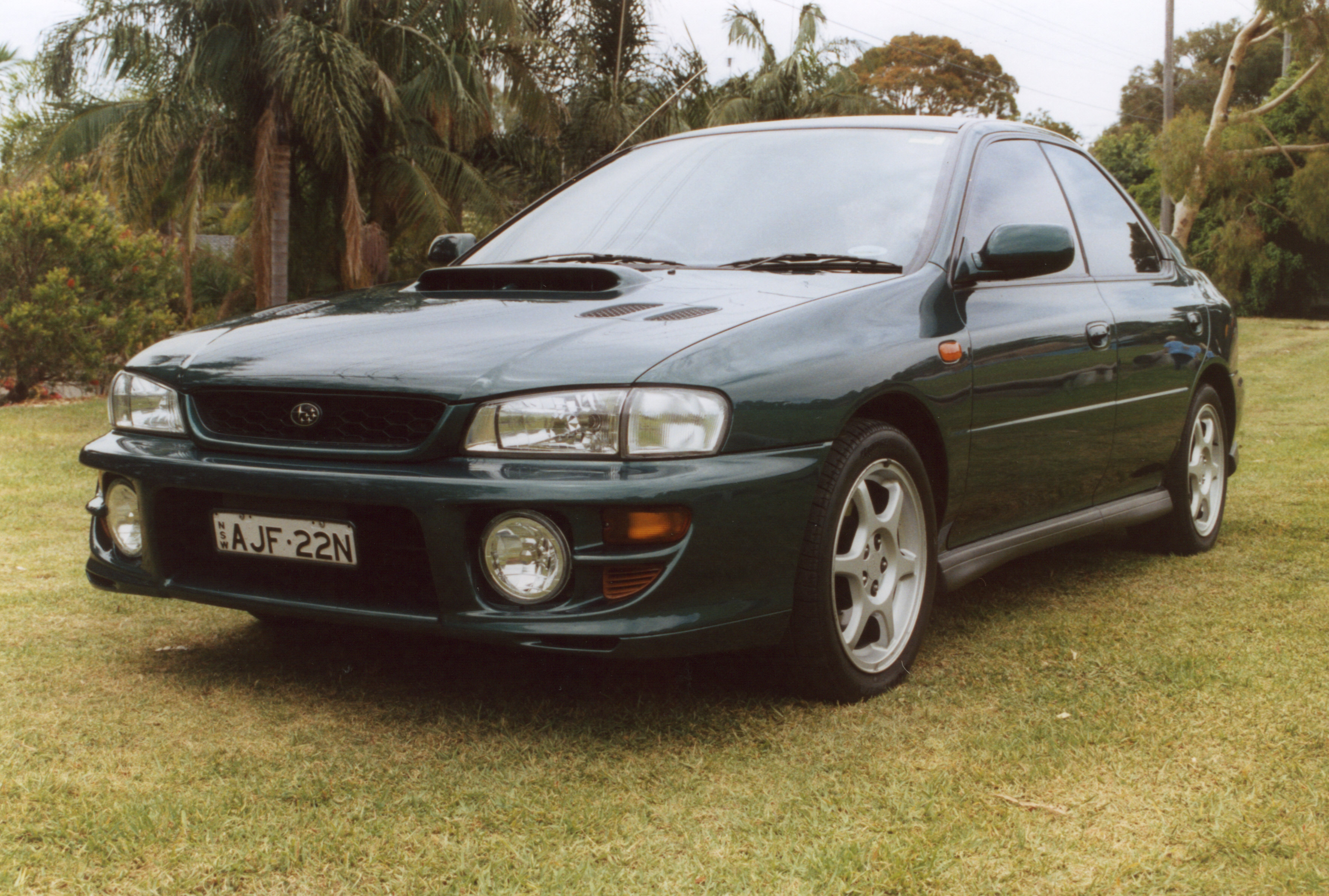 This image is a scan of a 35mm print taken in 2004 of my Subaru Impreza WRX